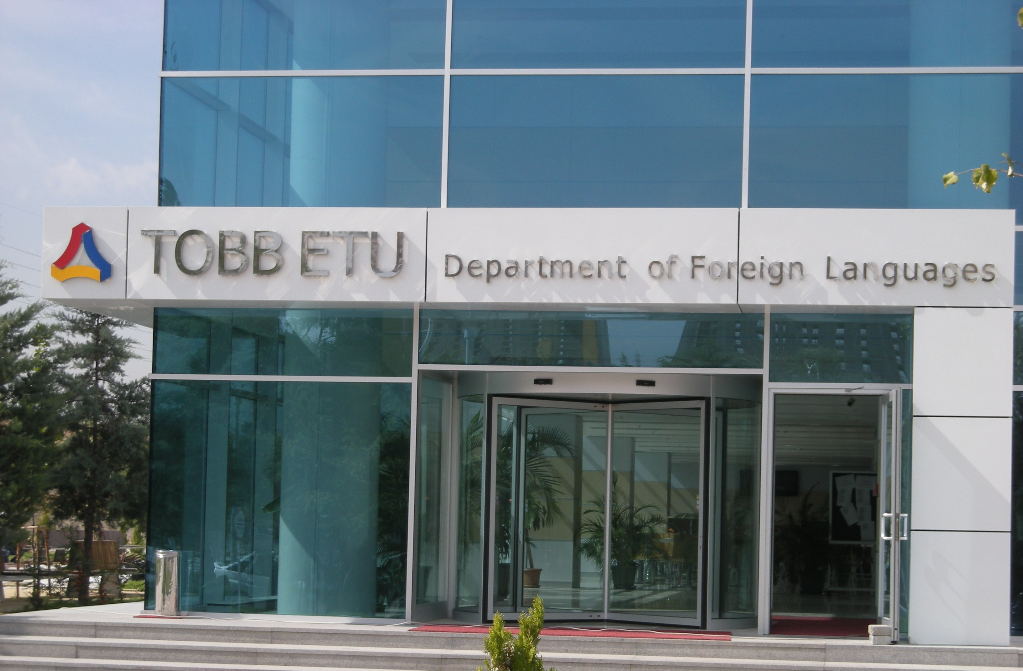 TOBB ETÜ Department of Foreign Languages